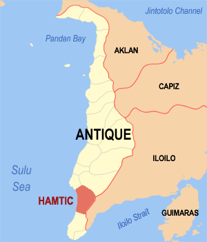 Map of Antique showing the location of Hamtic